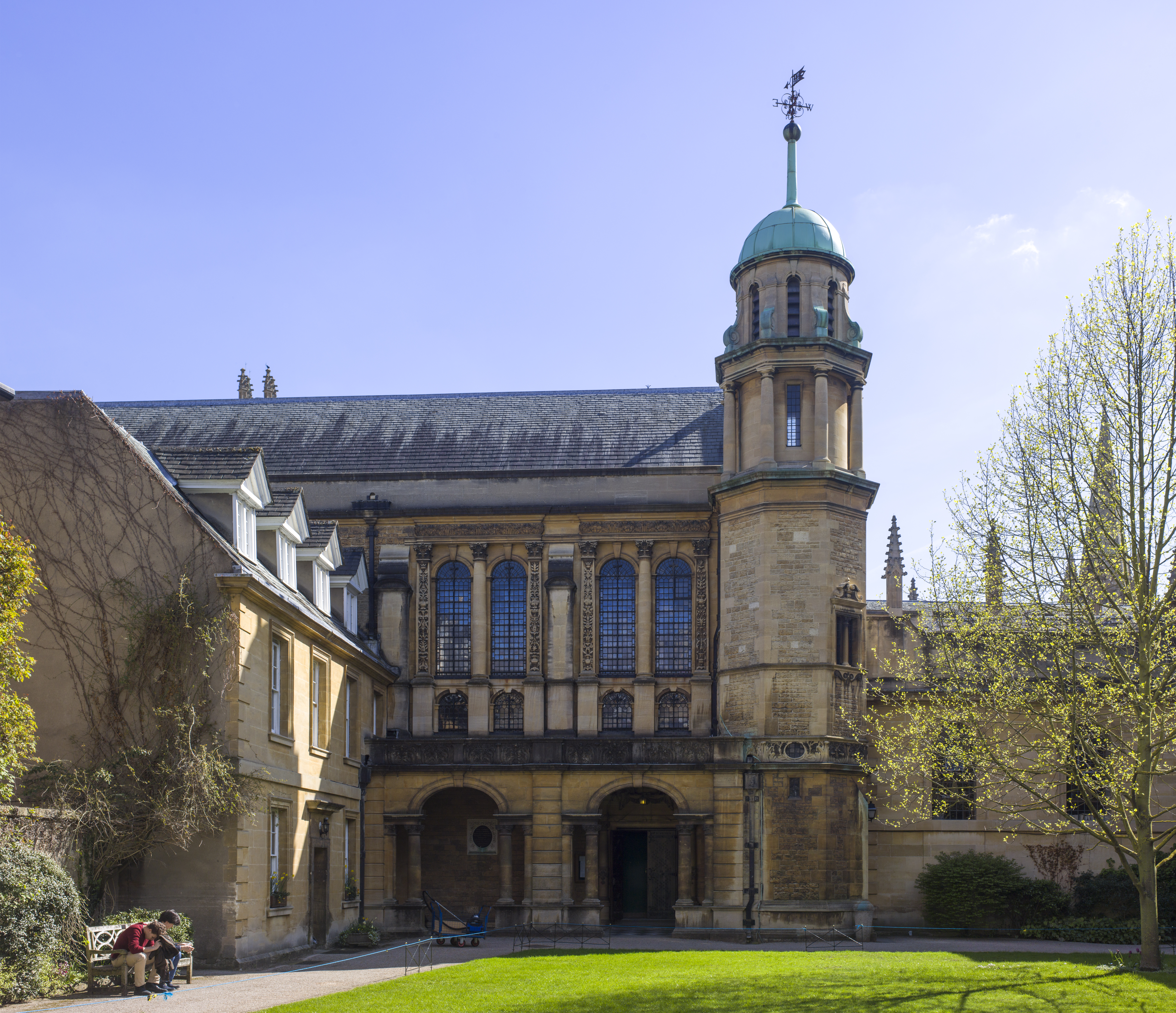 Hertford College Chapel, Oxford, seen from the north